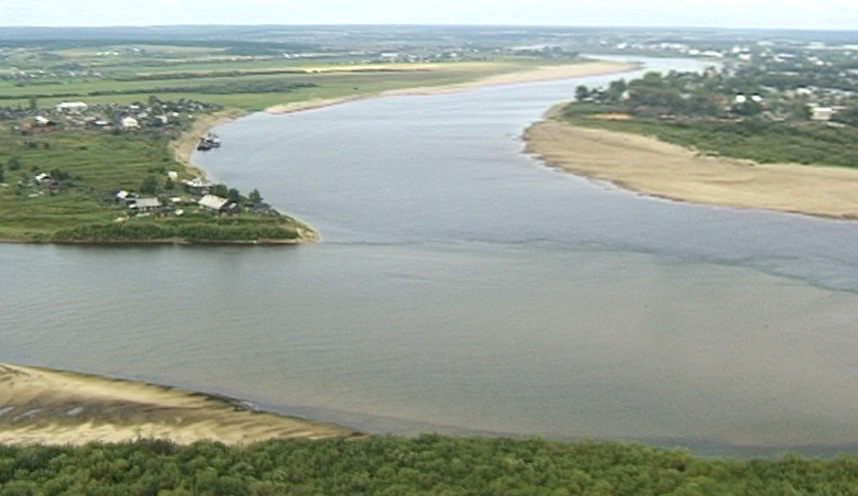 Northern Dvina starts as the confluence of Yug River (on left) and Sukhona River (on top) near Velikiy Ustyug